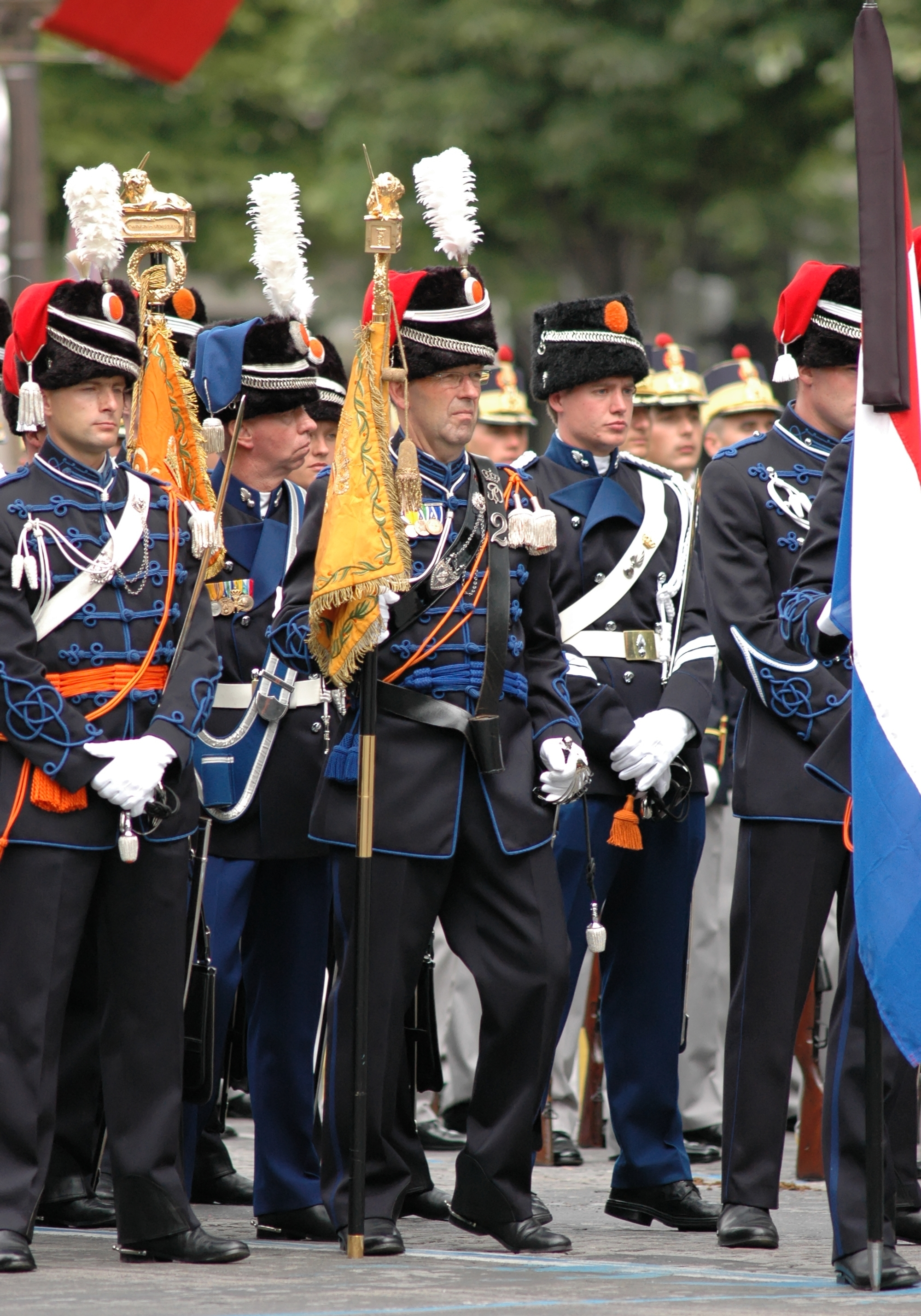 Soldiers of the Prince of Orange Hussars (Regiment Huzaren Prins van Oranje) of the Netherlands during the Bastille Day 2007 military parade on the Champs-Élysées.